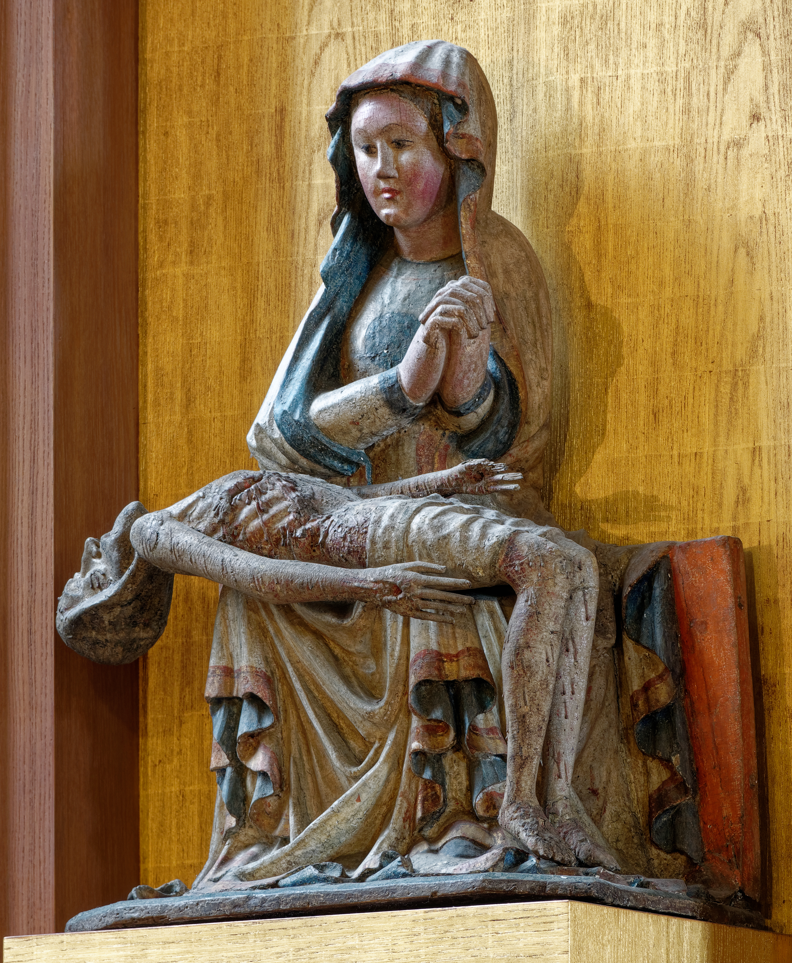 Mary in the vineyard (Volkach)